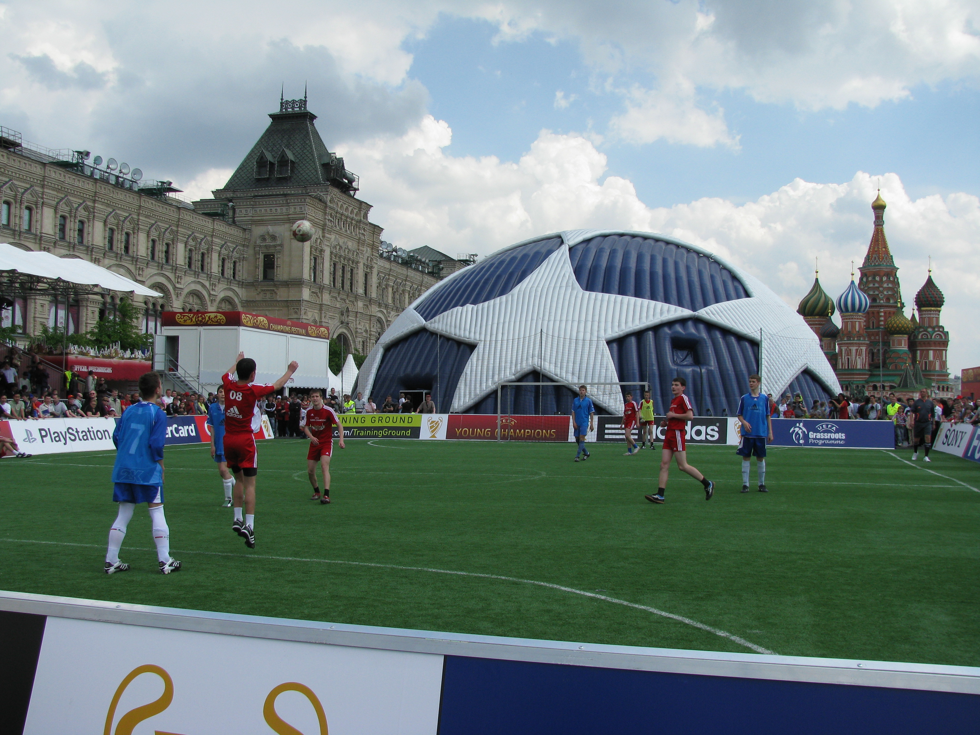 Champions Festival in Red Square, Moscow before 2008 UEFA Champions League Final